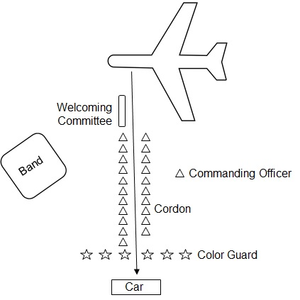 Diagram showing the position of units for a Flight Line Arrival ceremony for Head of State or Chief of Government at Joint Base Andrews.